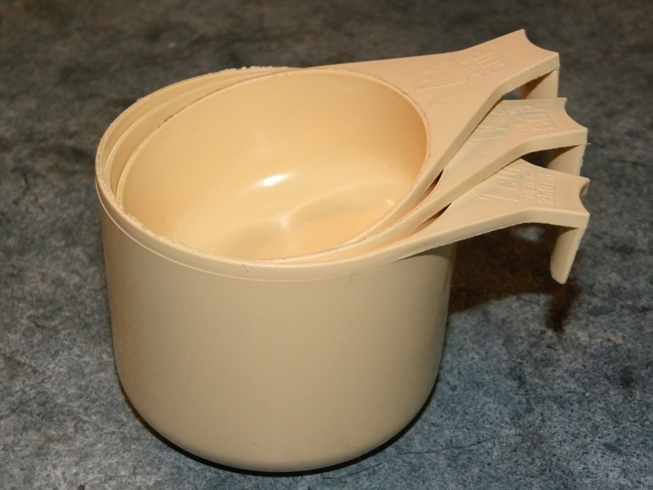 3 plastic measuring cups, labelled “1 cup (250 ml)”, “1/2 cup” and “1/3 cup”